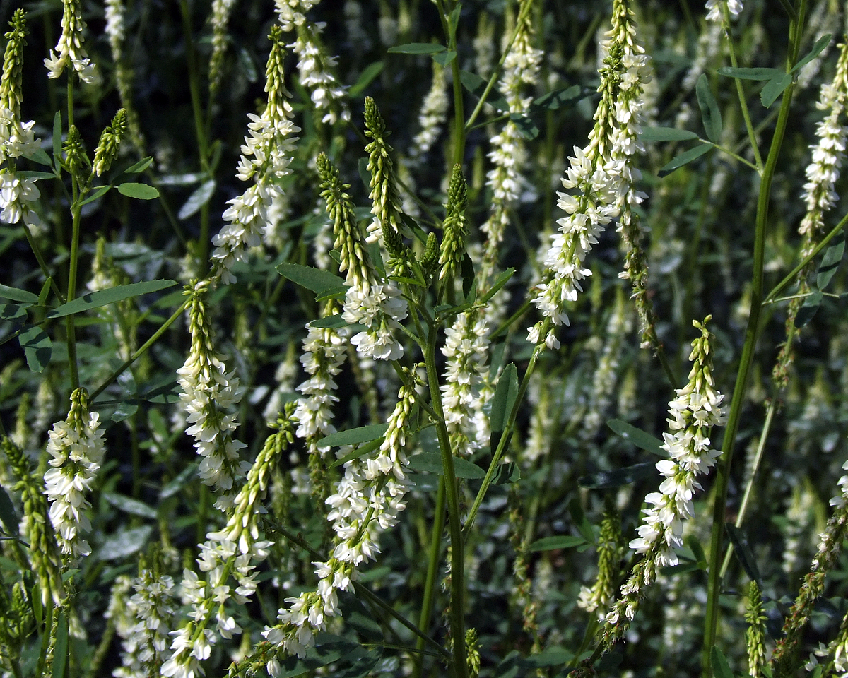 White Sweetclover (Melilotus Albus)